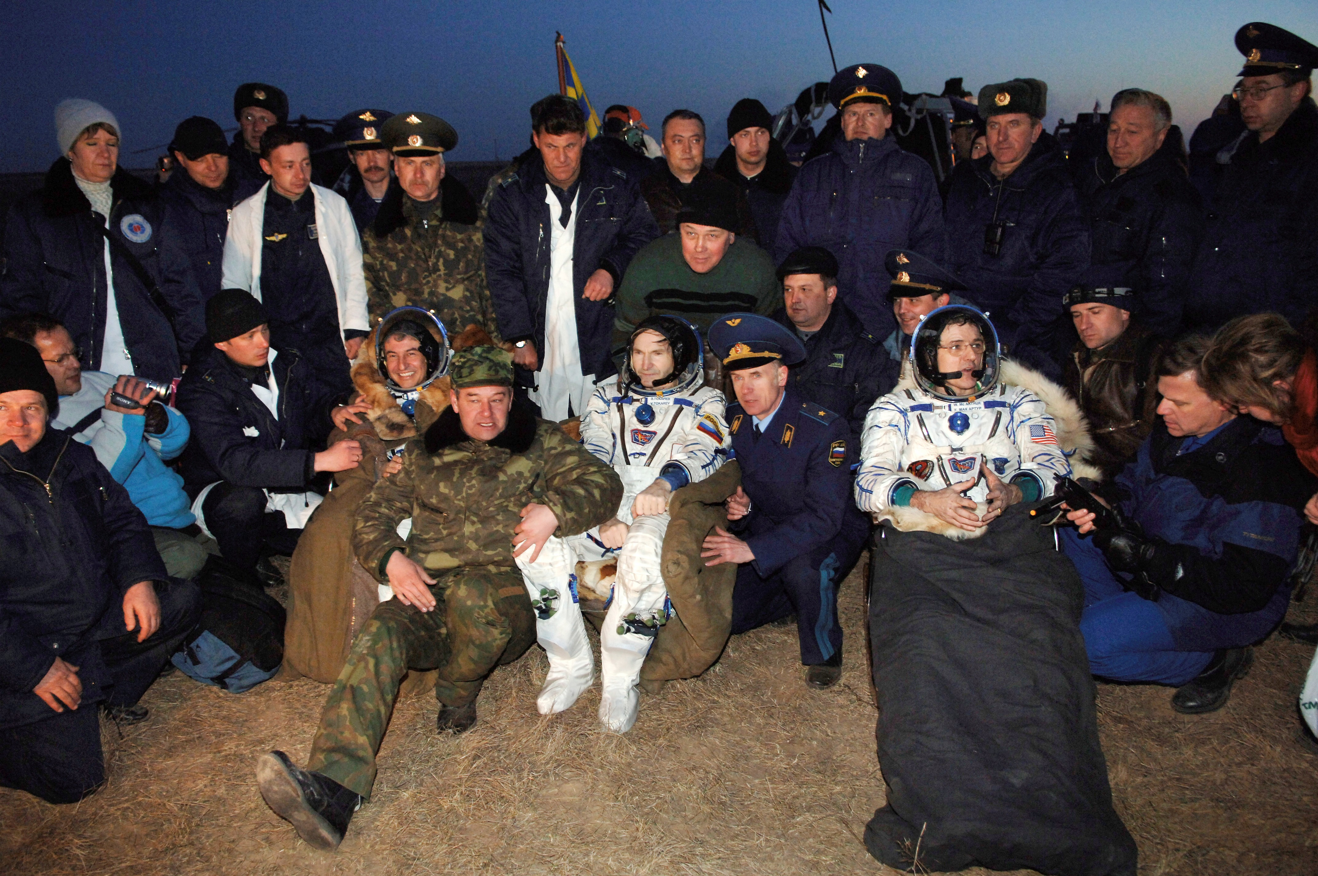 The two Expedition 12 crew members and a Brazilian astronaut are met by a couple of dozen greeters on hand at the landing site of the Soyuz TMA-7 spacecraft in the steppes of Kazakhstan. Still wearing their spacesuits (in the foreground, left to right) are Marco C. Pontes of Brazil, cosmonaut Valery I. Tokarev of Russia's Federal Space Agency and astronaut William S. McArthur Jr.